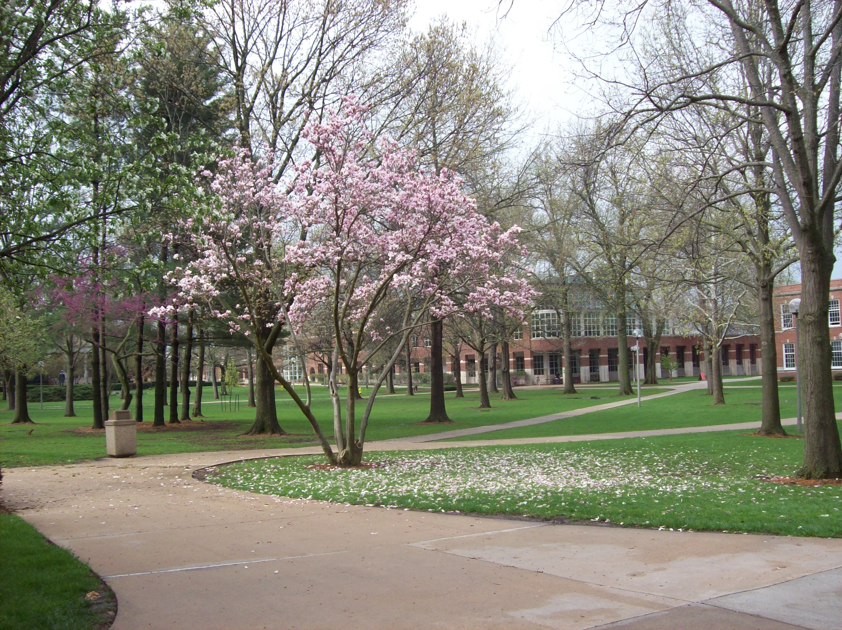 photo of Truman State University quadrangle